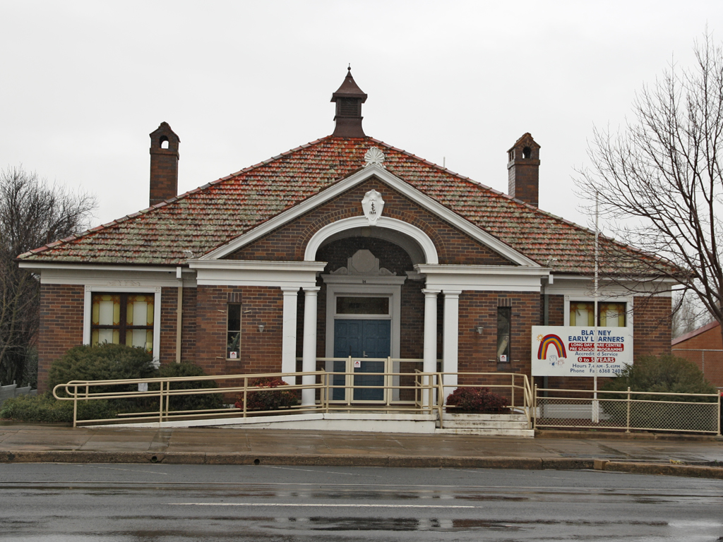 Council Chambers, Adelaide Street, Blayney, NSW, Australia.